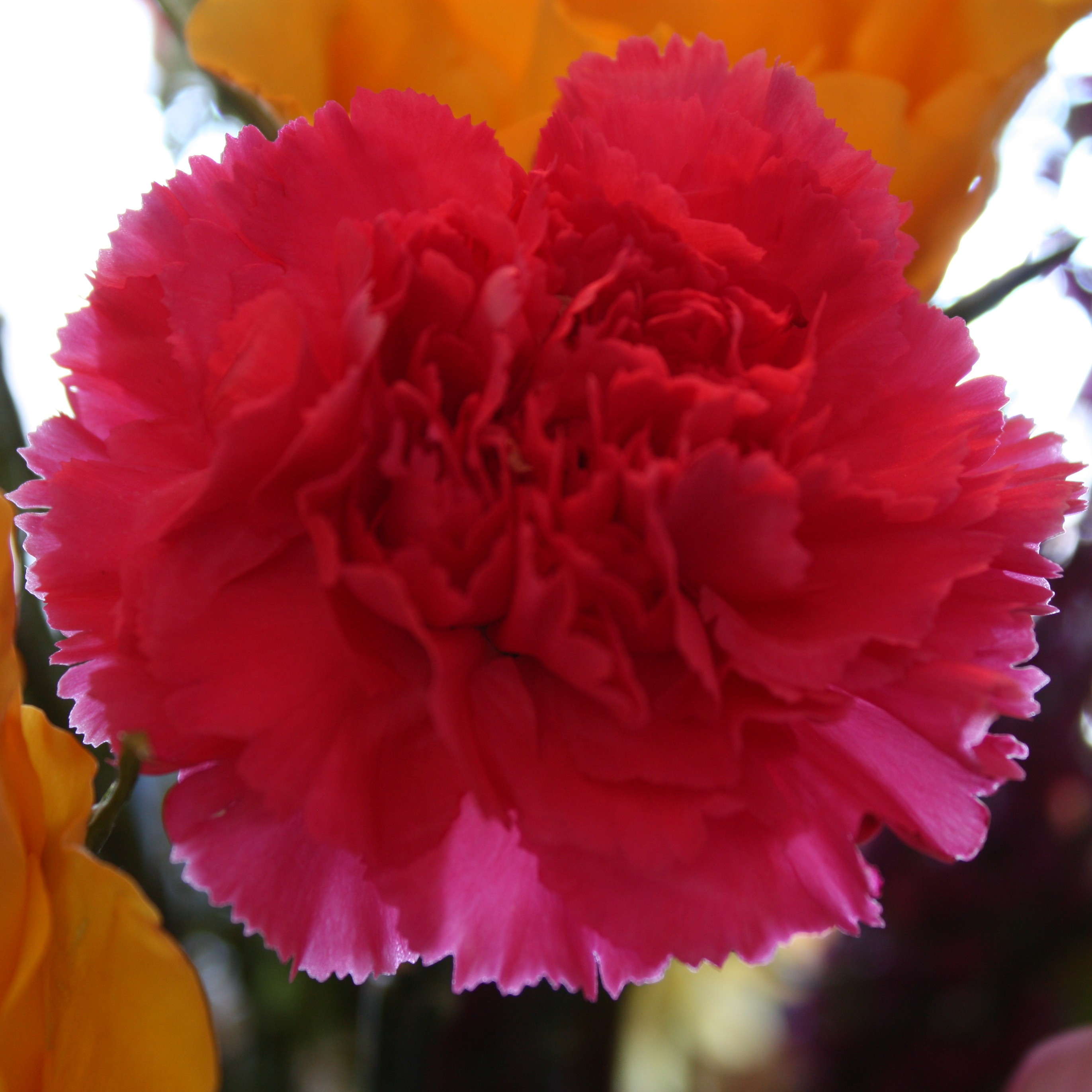 This is a picture of a carnation I took myself.